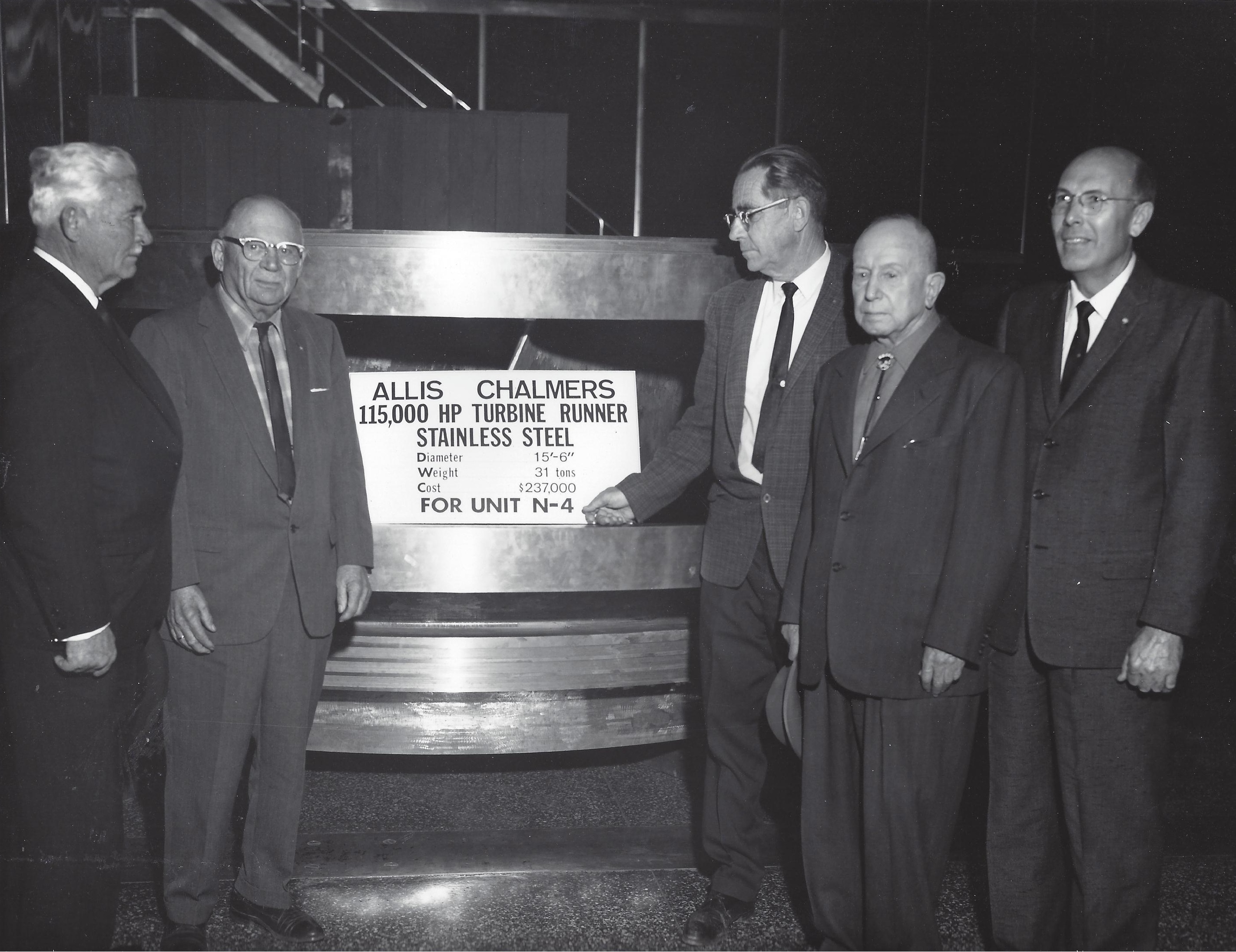 Photograph of Bureau of Reclamation officials at Hoover Dam, plsing in front of Allis Chalmers 115,000 HP turbine runner stainless steel for Unit N-4. Credit: "Bureau of Reclamation, U.S. Department of the Interior, Region 3, Boulder City, Nevada P 45-301-11516." [Louis R. Douglas second from left]